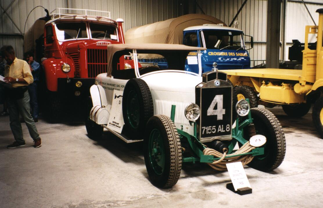 Picture of restored Cottin Desgouttes that won the Sahara race